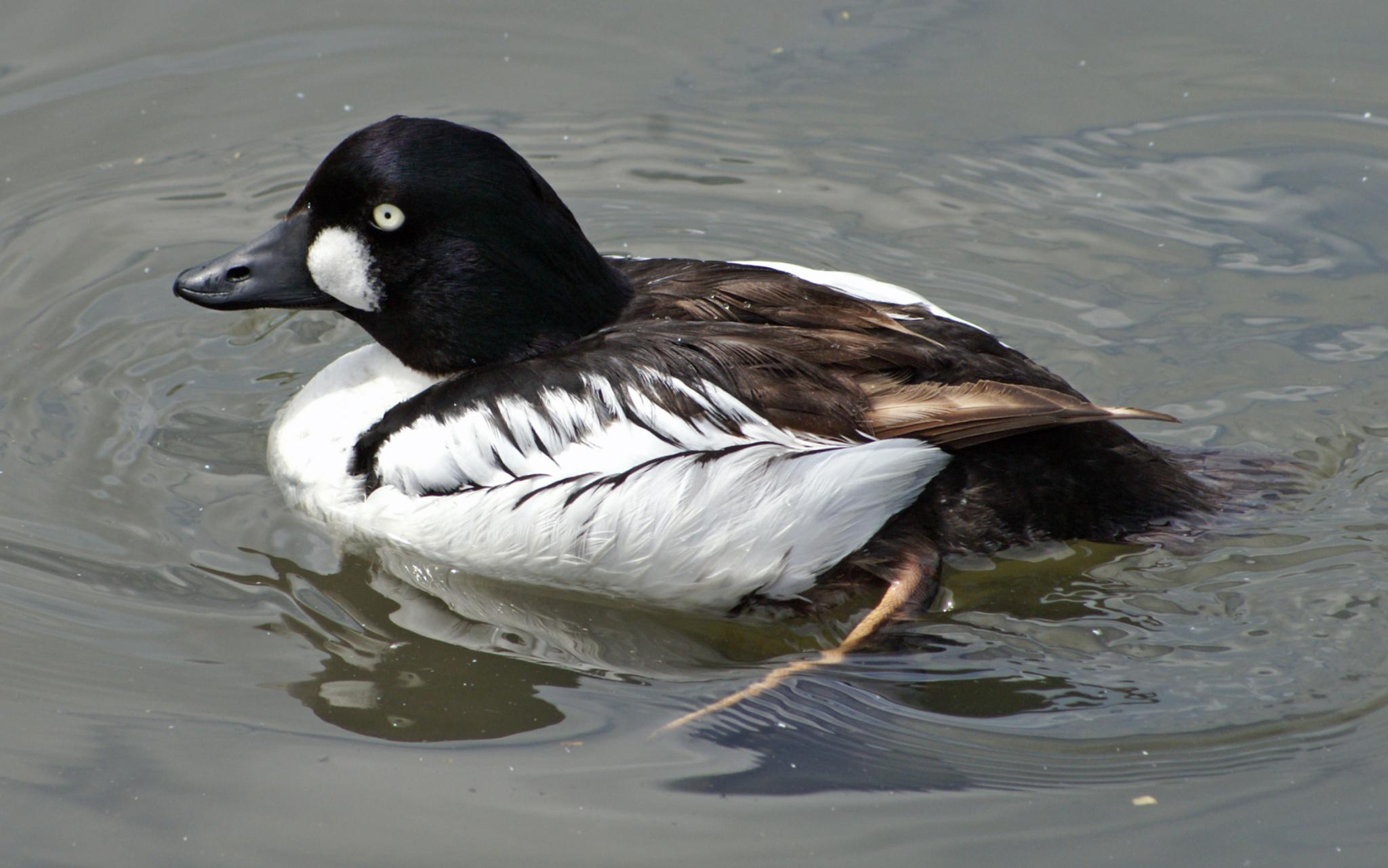 Common Goldeneye (Bucephala clangula) male. Captive, Slimbridge Gloucestershire.